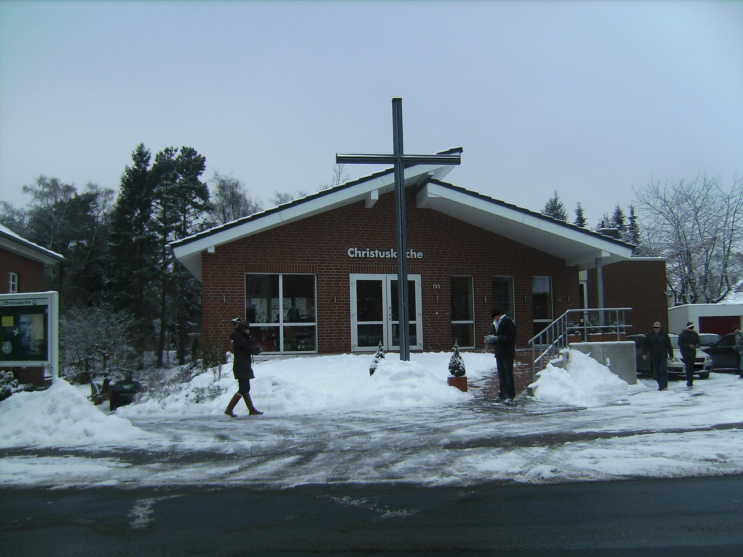 Christuskirche (Christ Church): The Baptist Church of Buchholz in der Nordheide, Lower Saxony, Germany